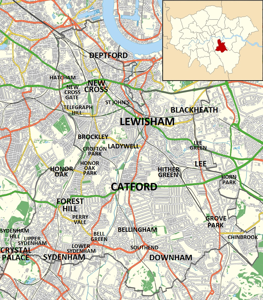 Location map of the London Borough of Lewisham with the following information shown: Ward boundaries Motorways Primary routes Non-primary A roads B roads Minor roads Railways Water Woodland Buildings Equirectangular map projection on WGS 84 datum, with N/S stretched 160% Geographic limits: West: 0.08W East: 0.045E North: 51.5N South: 51.41N